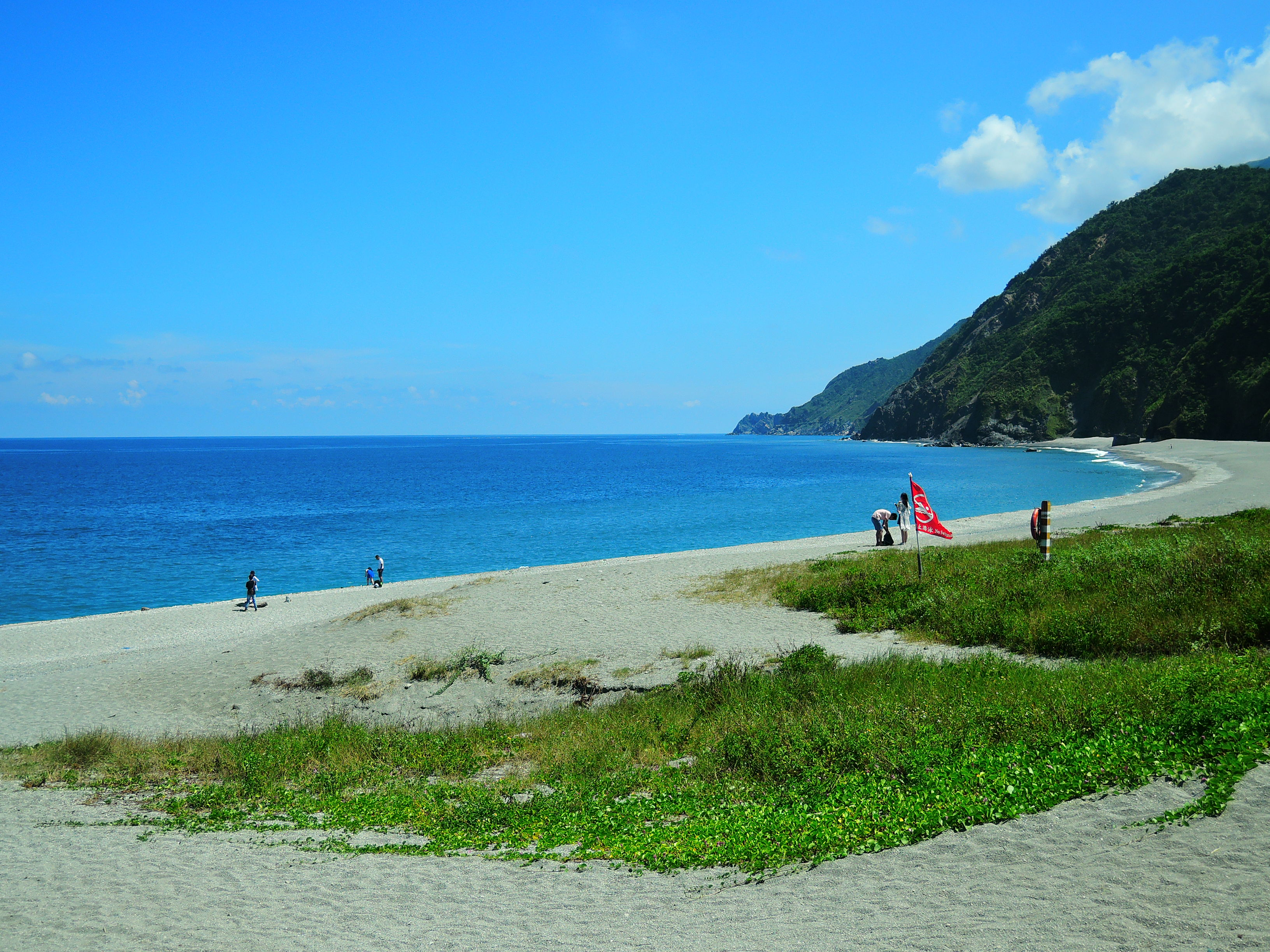 Neipi Bay, Suao Township, Yilan TAIWAN